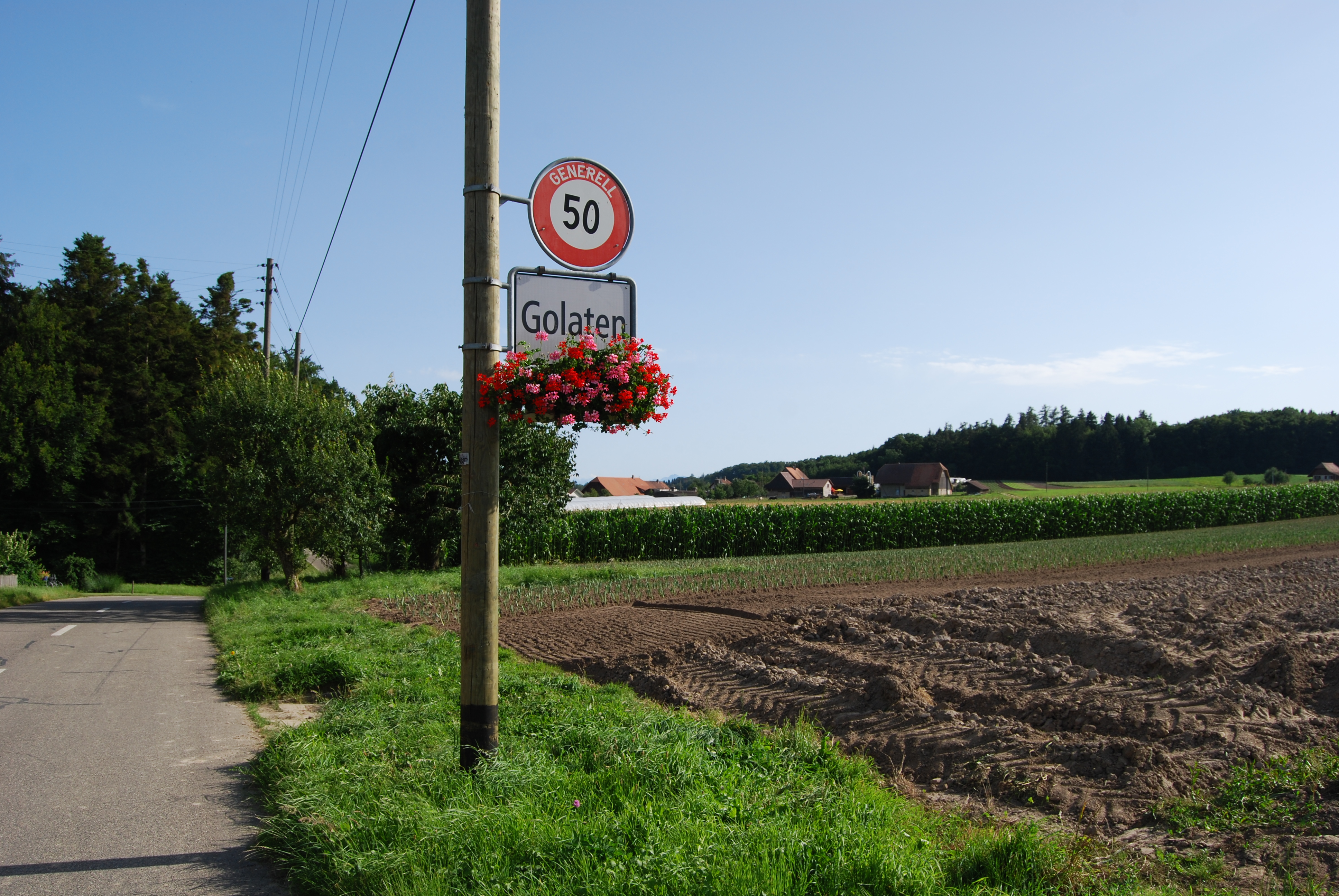 Golaten, canton of Bern, SwitzerlandEsperanto: Golaten, Kantono Berno, Svislando